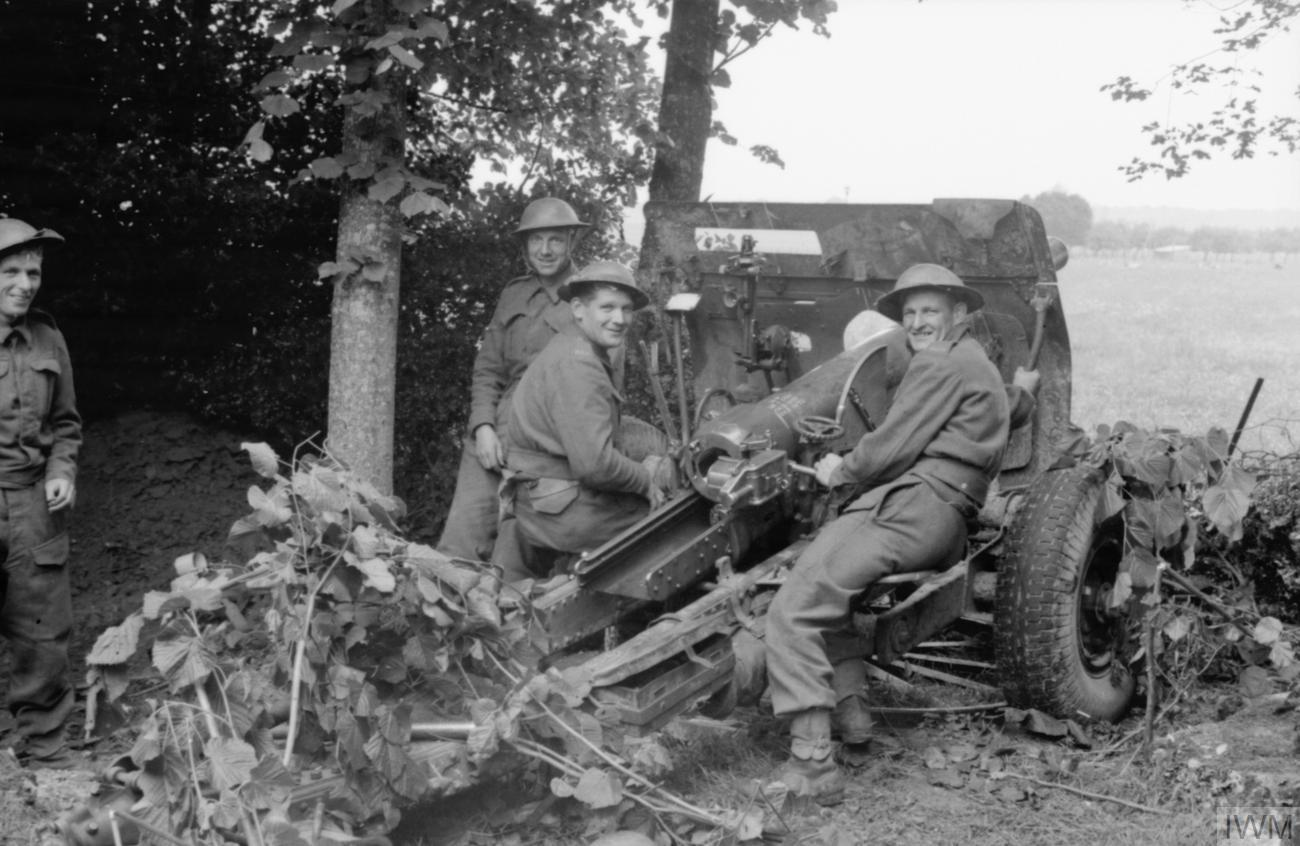 The British Army in France 1940 18-pdr field gun and crew at St Maxent, 26-29 May 1940.